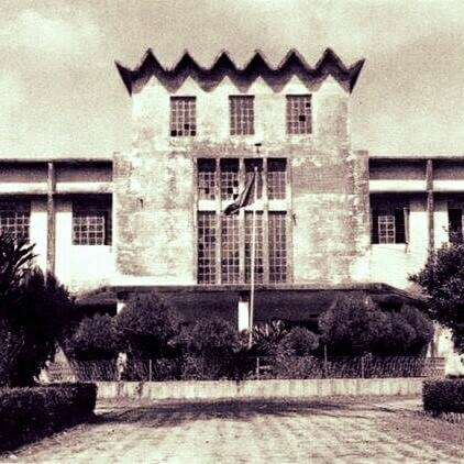 Old building of KPC